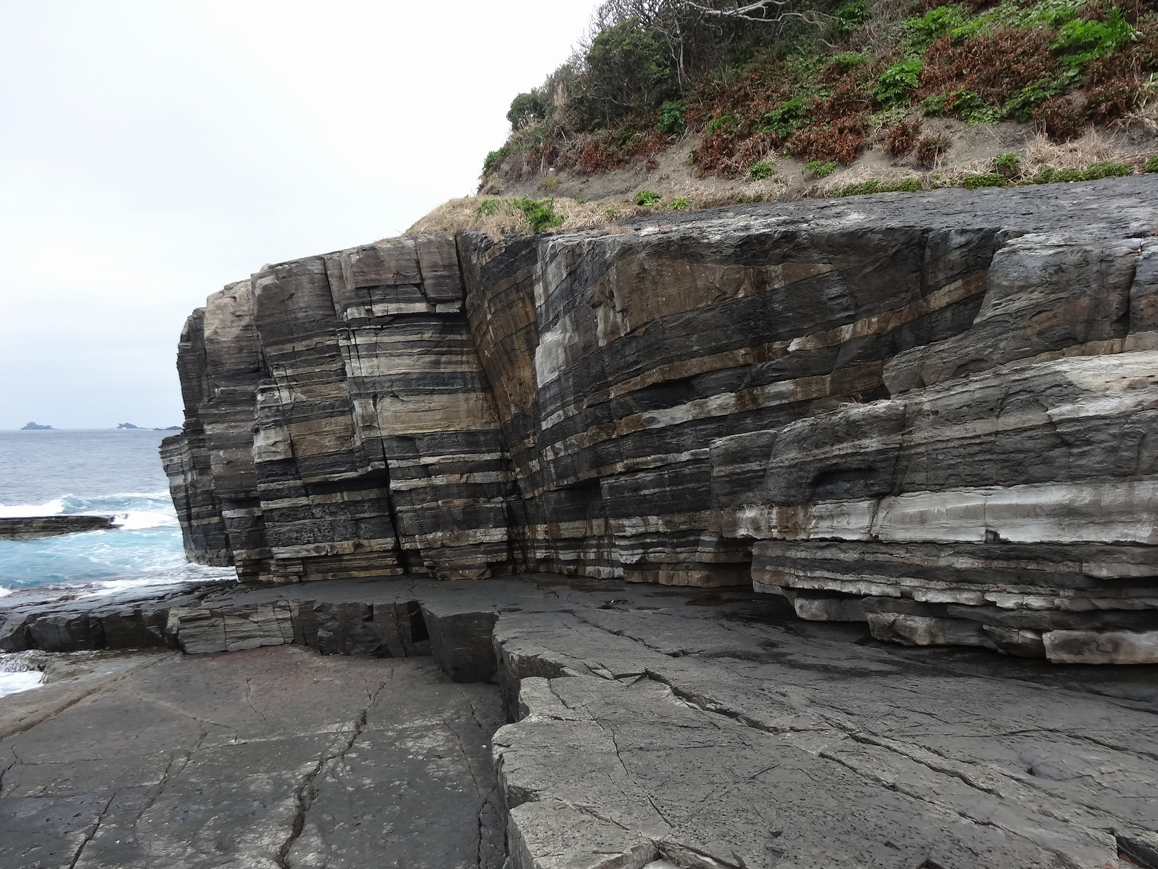 "Susa Hornfels" in Susa, Hagi City, Yamaguchi Prefecture, Japan